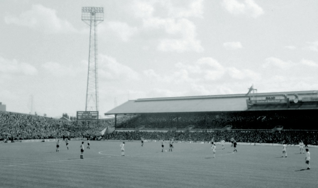 Roker Park August 1976 This is Sunderland about to kick off over 30 years ago against Arsenal. The Roker End to the left is uncovered and the stand opposite was known as the Clock Stand. If you look carefully you can see the Match of The Day cameras on top of the stand. The ground is now gone and has a housing estate built on it now. I think there maybe a Clock Stand Drive. There is also a Goalmouth Close and of course the aptly named Promotion Close. Happy Days.